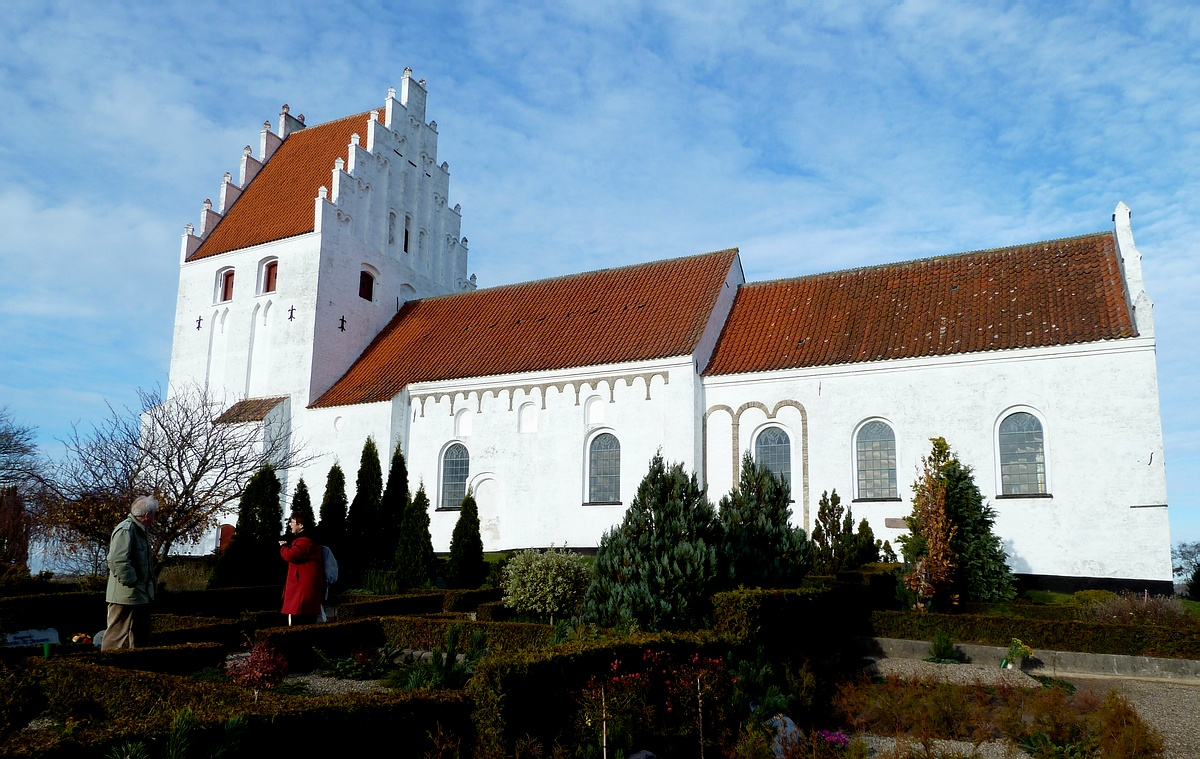 Jærum Church at Assens on the island of Funen, Denmark